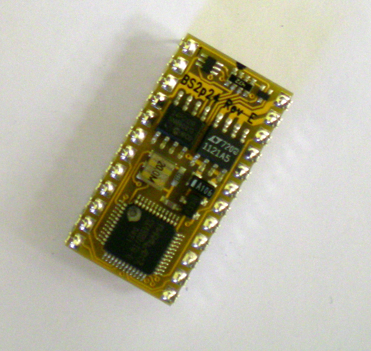 Basic stamp 2p24